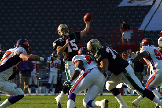 Berlin Thunder's quarterback (Dave Ragone) passes for a touchdown. Berlin Thunder beat Frankfurt Galaxy convincingly 30 points to 7.